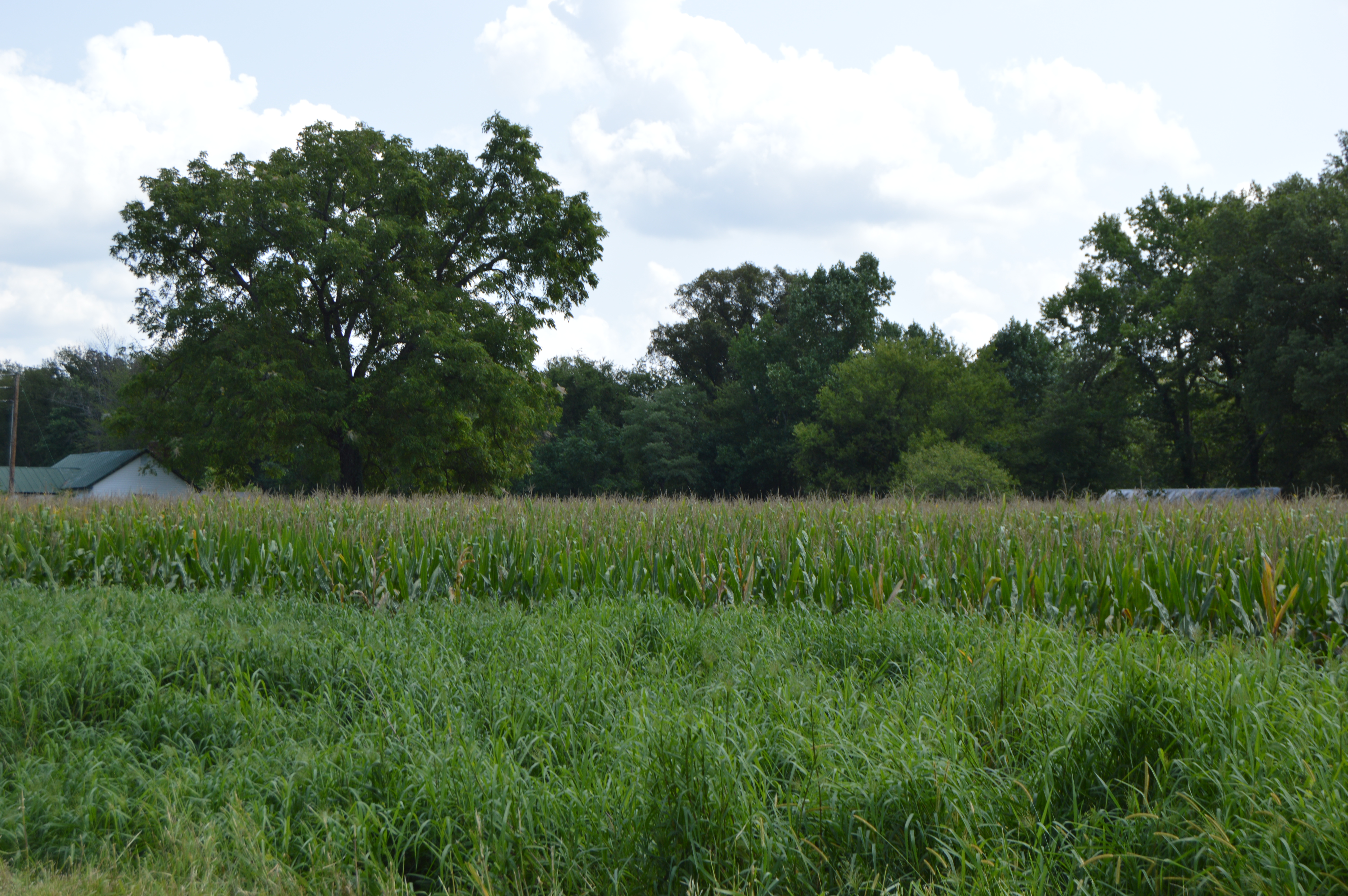 Fields on the western end of what was once the Chantilly plantation, seen looking east from Independence Drive just east of Stratford Hall in Westmoreland County, Virginia, United States. The plantation site is listed on the National Register of Historic Places.